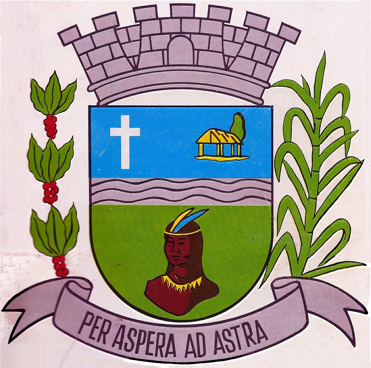 Coat of arms of Cajuru, São Paulo state, Brasil This work is in the public domain in Brazil for one of the following reasons: It is a work published or commissioned by a Brazilian government (federal, state, or municipal) prior to 1983.(Law 3071/1916, art. 662; Law 5988/1973, art. 46; Law 9610/1998, art. 115) It is the text of a treaty, convention, law, decree, regulation, judicial decision, or other official enactment.(Law 9610/1998, art. 8) Emerson